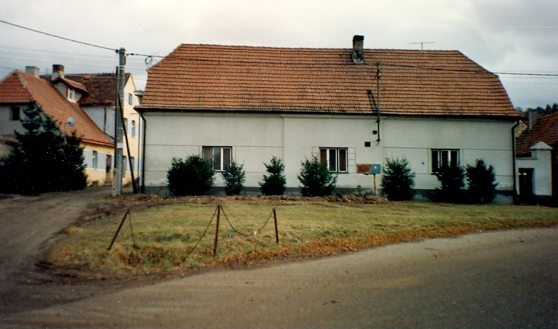 The house No 8 in Sirem where lived Franz Kafka